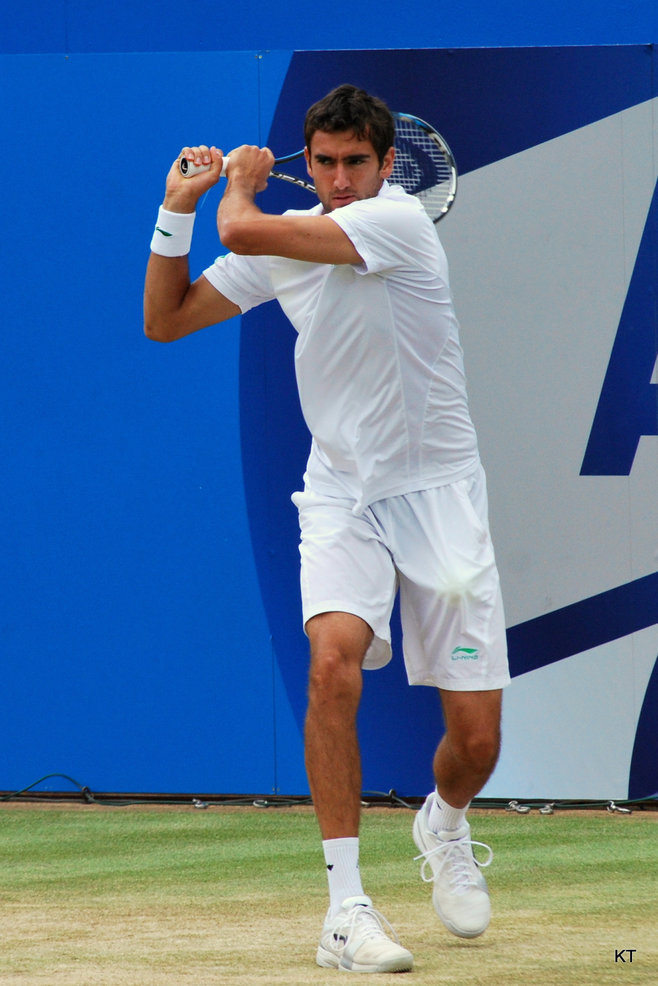 Aegon Championships final 2012.